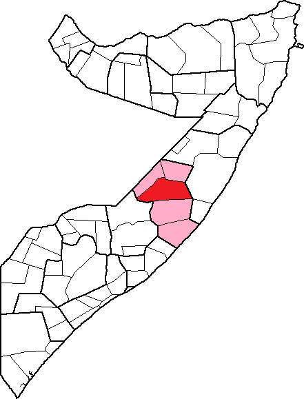 Location of the Dhusamarreeb (Dusa Mareb) district in the Galguduud region, Somalia. Boundaries reflect those endorsed by the Republic of Somalia in 1986.